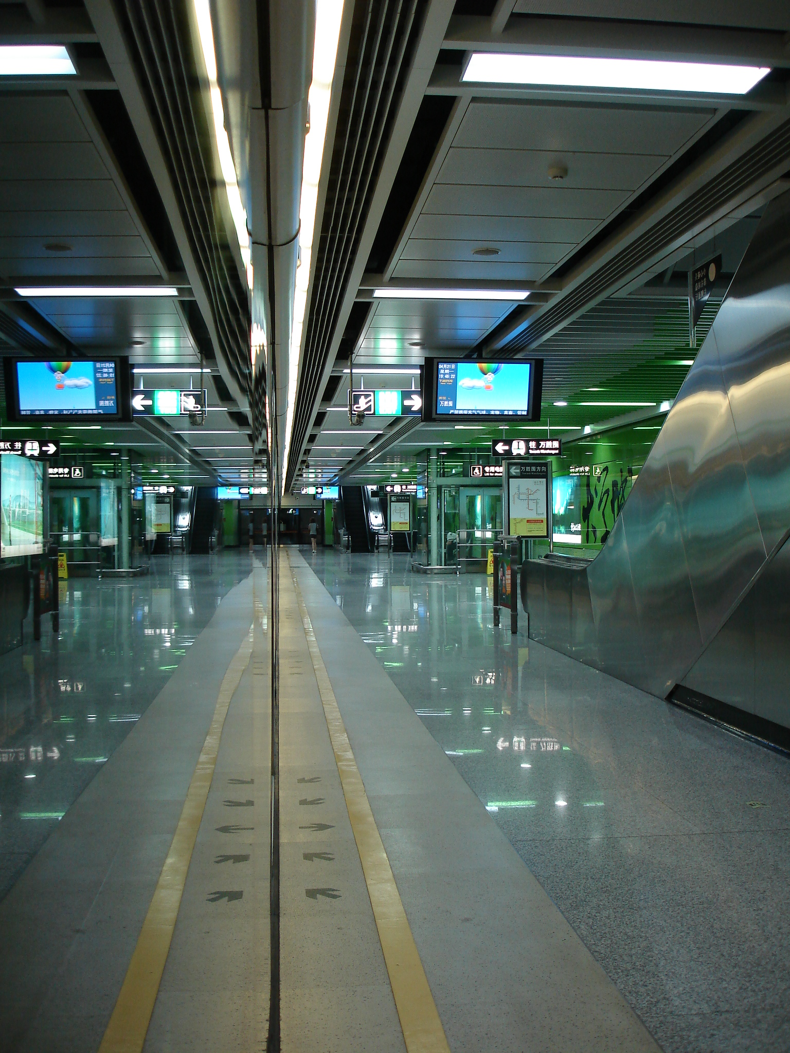 North bound platform of Higher Education Mega Centre North Station, Line 4, Guangzhou Metro